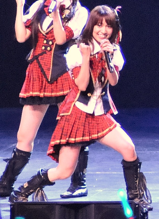 Yūko Ōshima of AKB48